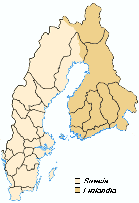 Map of Swedish and Finnish historical landskaps.